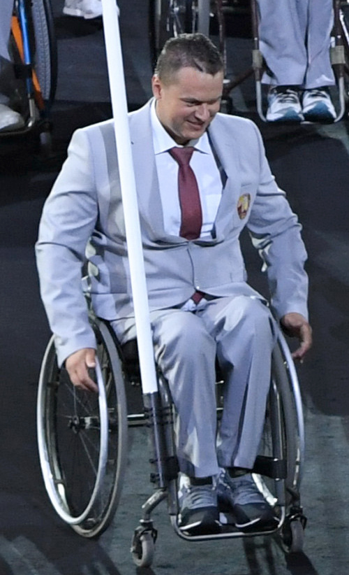 2016 Summer Paralympics: Opening with ...